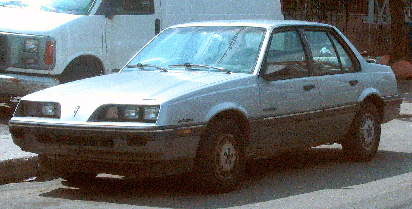 1987-1988 Pontiac Sunbird photographed in Montreal, Quebec, Canada.